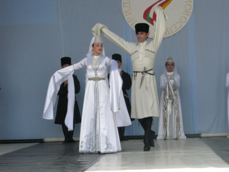 South Ossetian performers